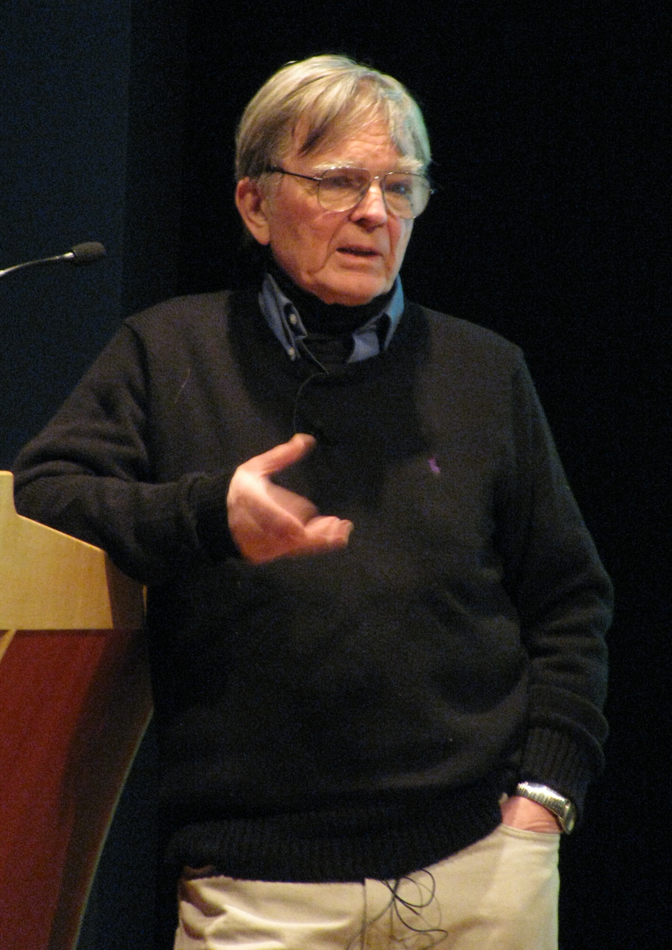 Robert Coover speaking about the CaveWriting software [1] and workshops, during a Morris Visiting Artist Residency at the University at Buffalo.